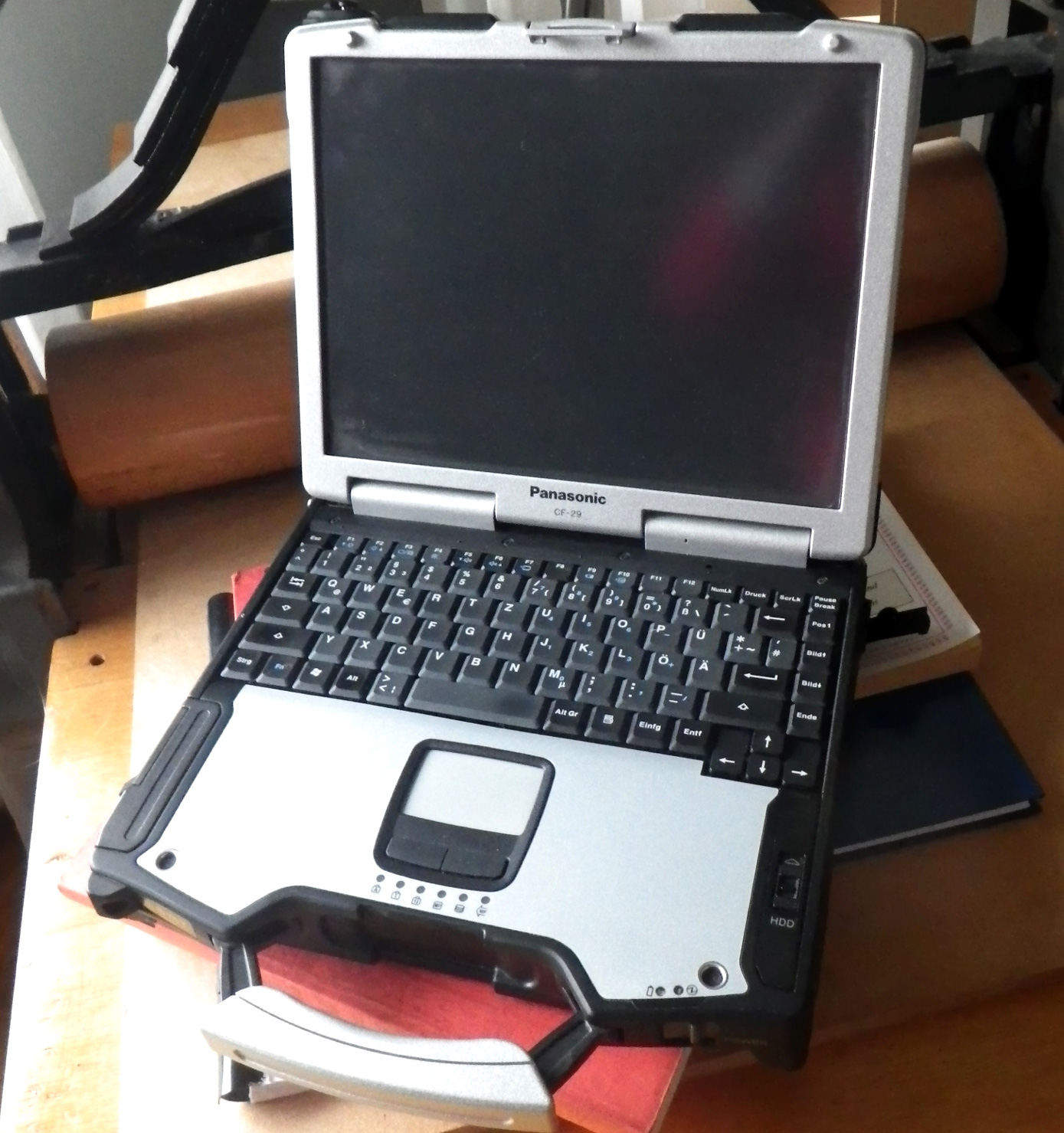 Panasonic CF-29 Toughbook computer